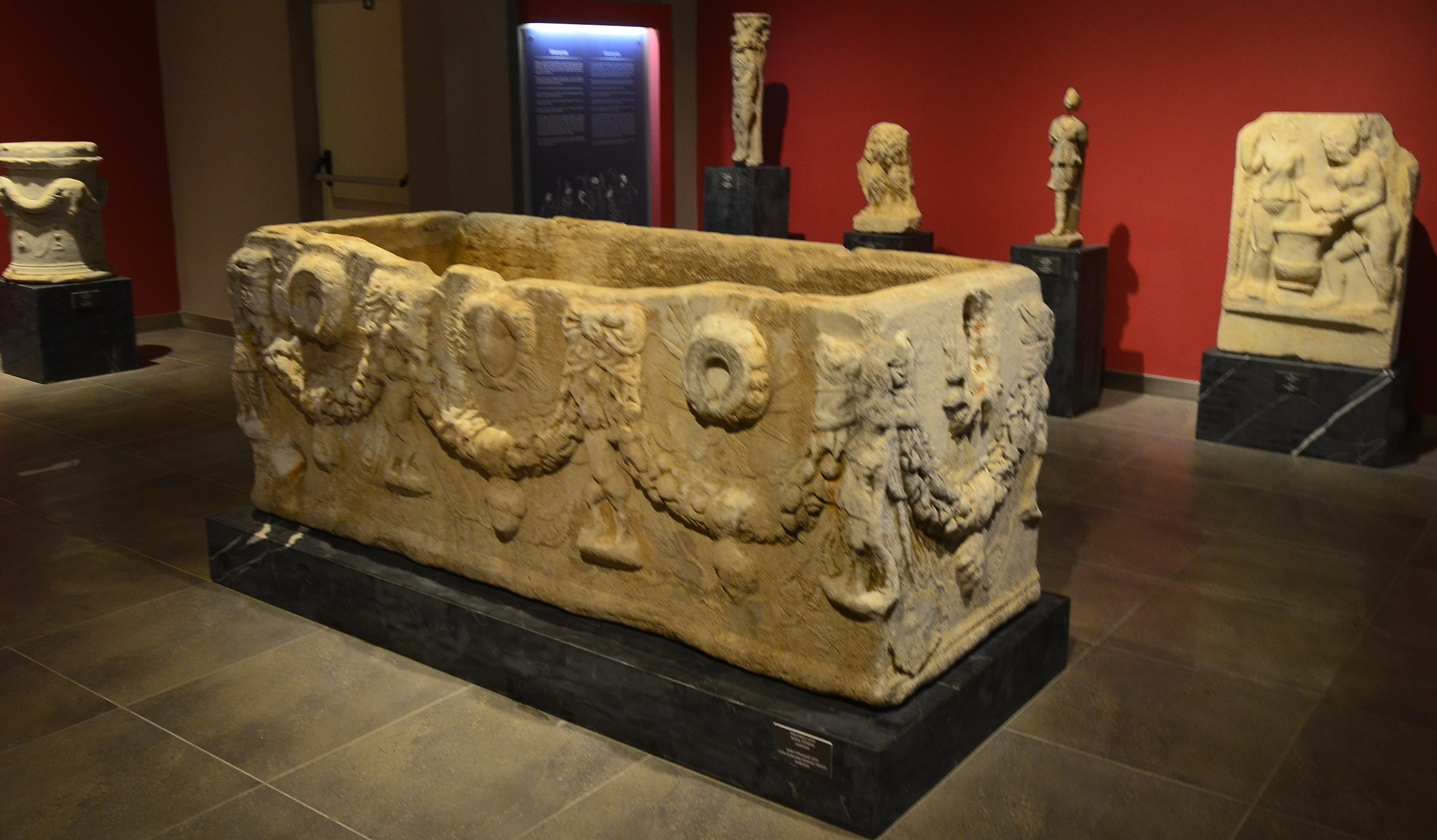 Ancient Roman sarcophag at Aydın Archaeological Museum